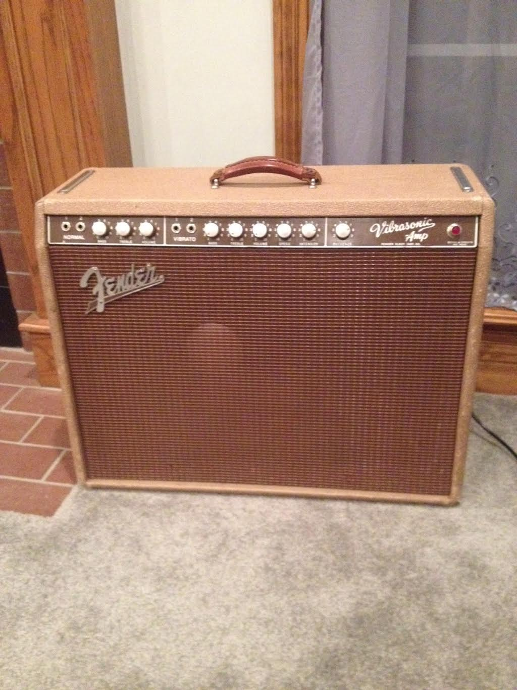 First production ca. late 1959, prototype metal control knobs, JBL D130 speaker, center volume control.